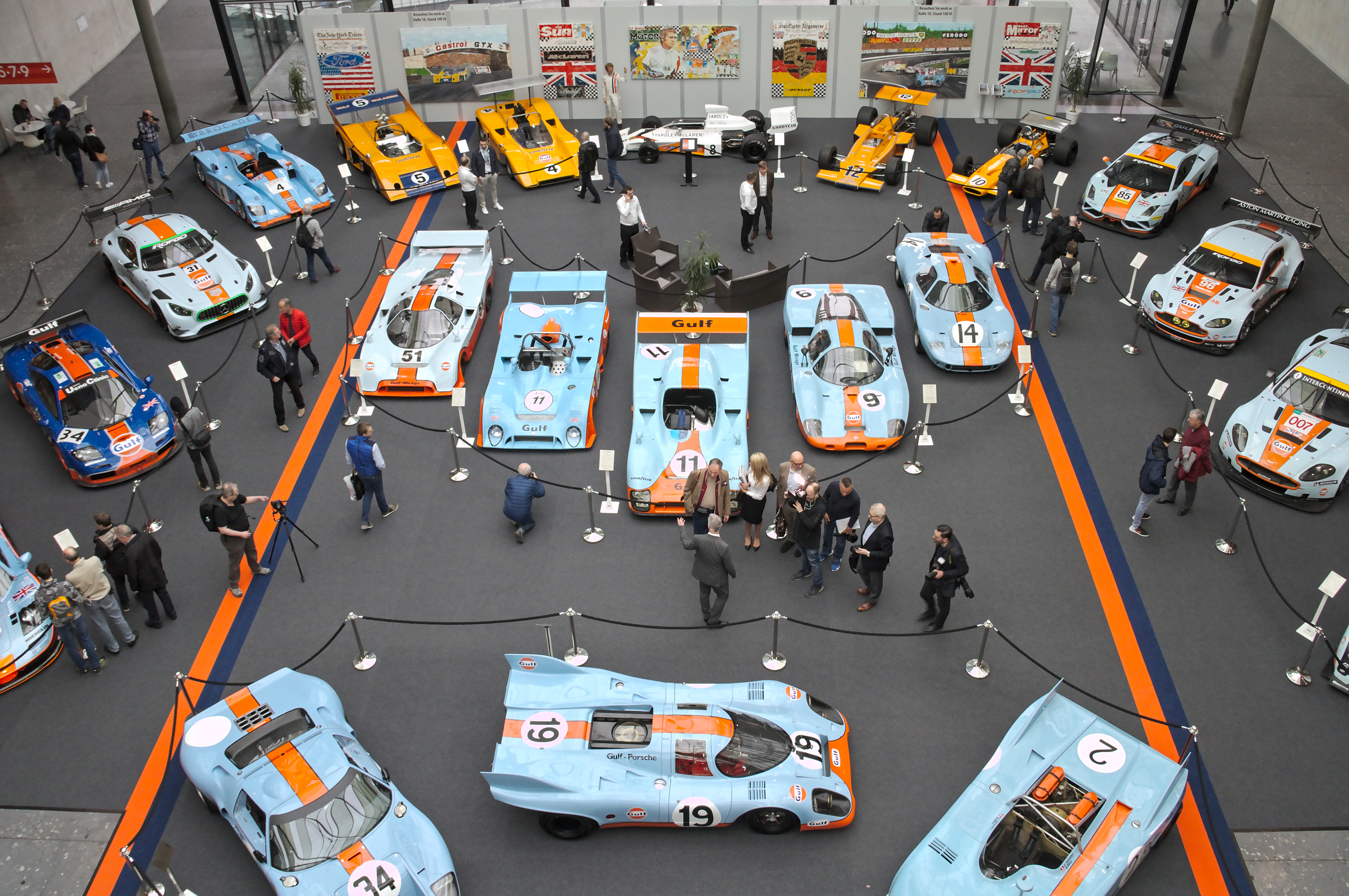 Rofgo_Gulf_Heritage_Collection at Retro Classics 2020